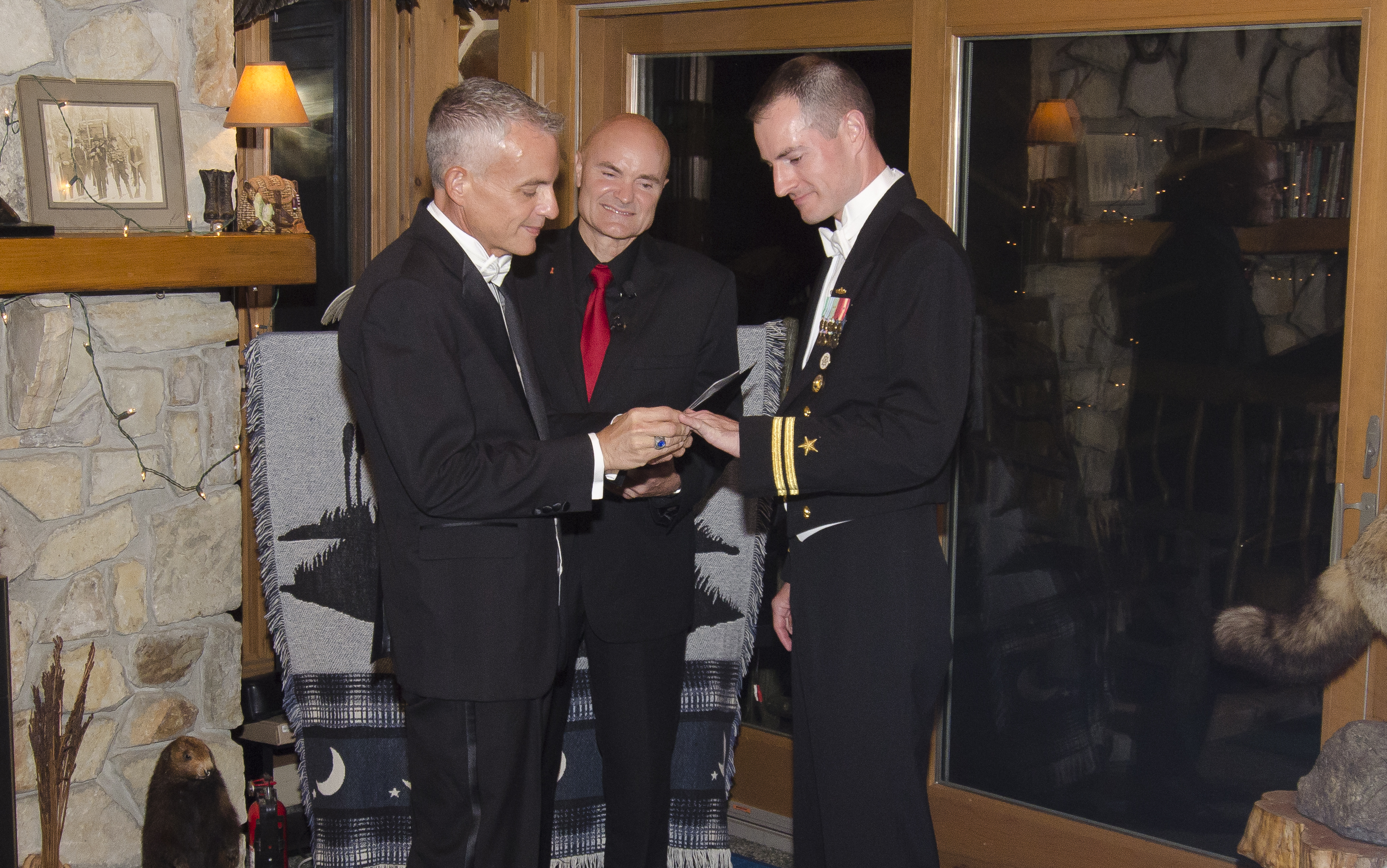 Wedding Ceremony of LT Gary Ross and Dan Swezy